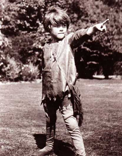 Michael Llewelyn Davies dressed as Peter Pan and photographed by J. M. Barrie at Rustington, August 1906